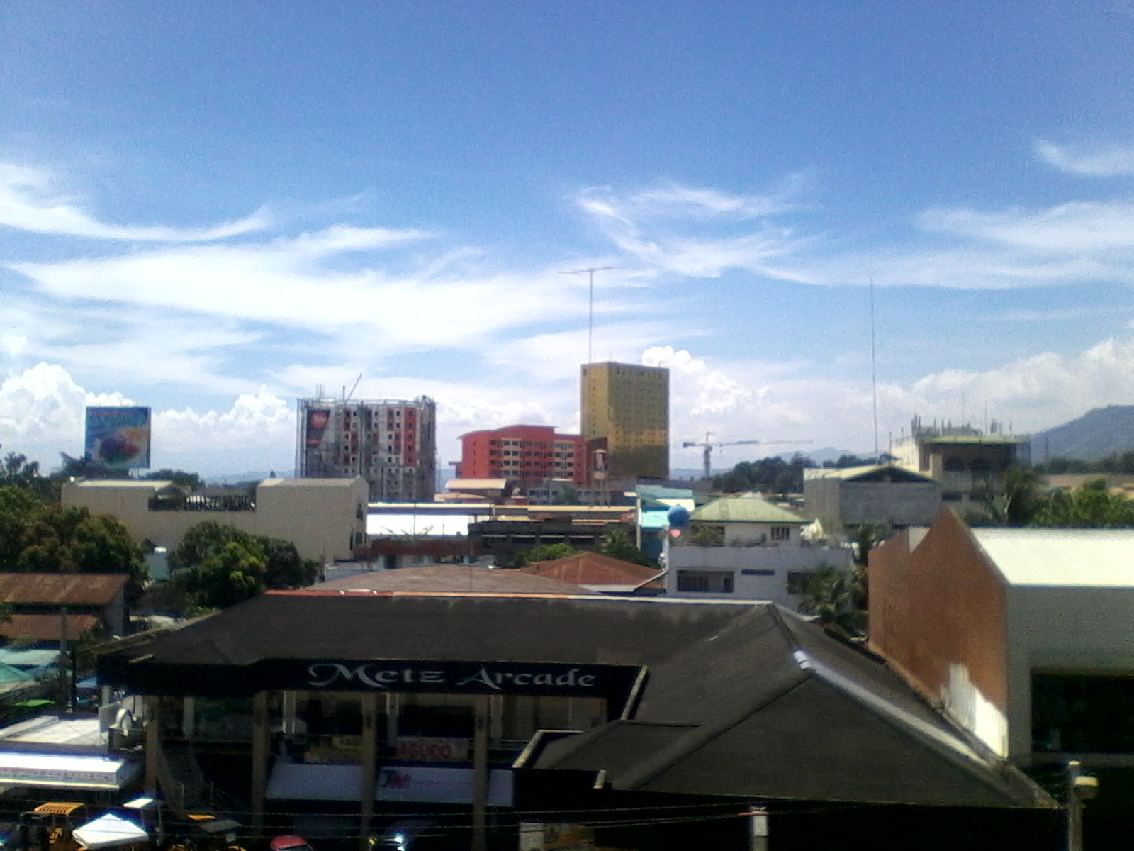 Captured from Centrio building. Original Image.